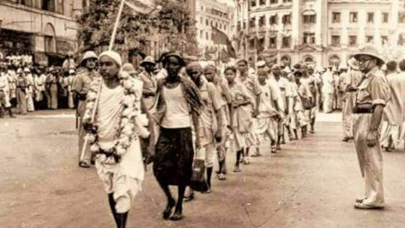 Procession of Loke Sebok Sangha joto Howrah